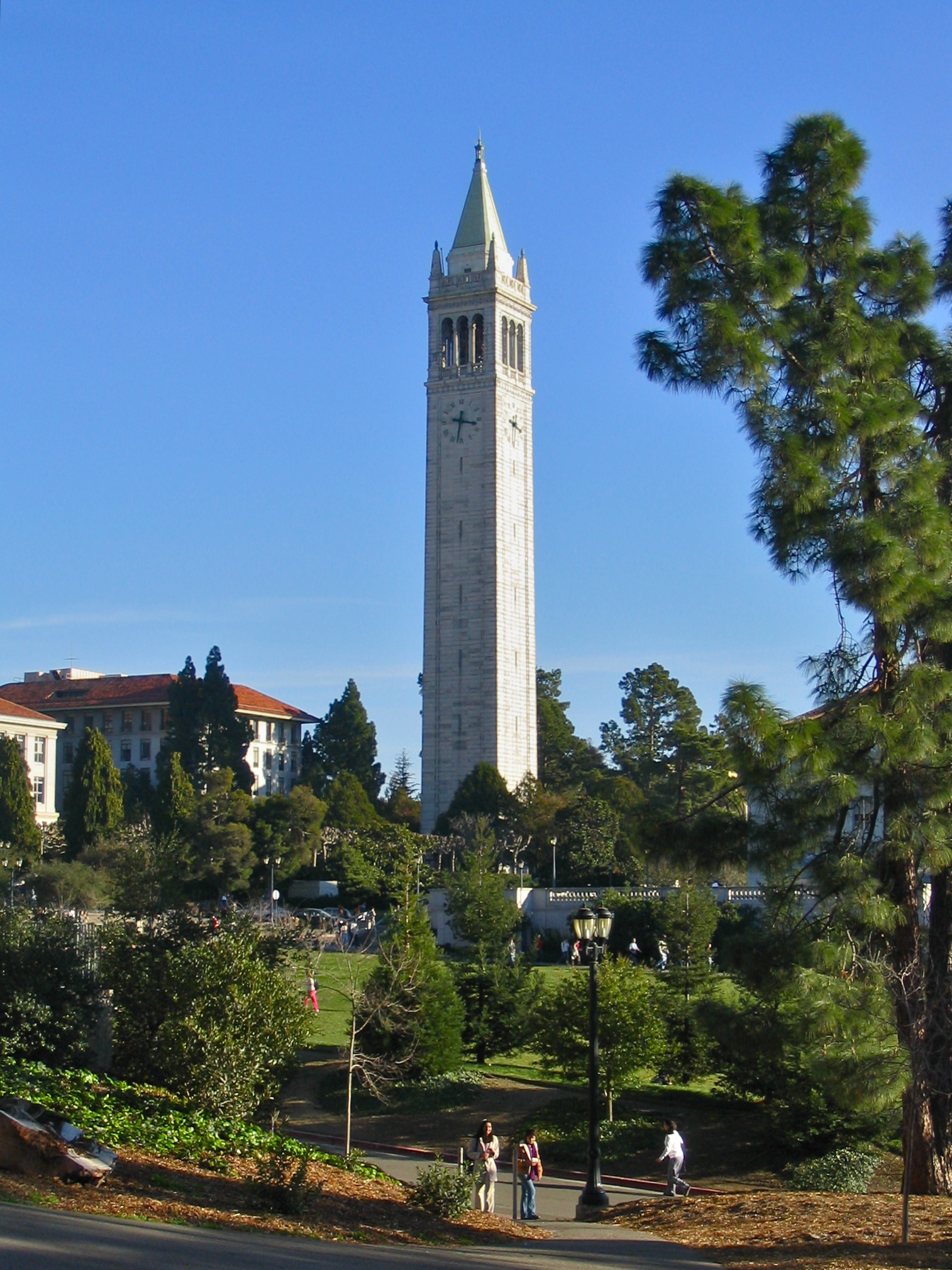 Sather Tower, on the campus of the University of California, Berkeley in Berkeley, California, United States